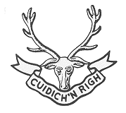 Cap Badge of the Seaforth Highlanders